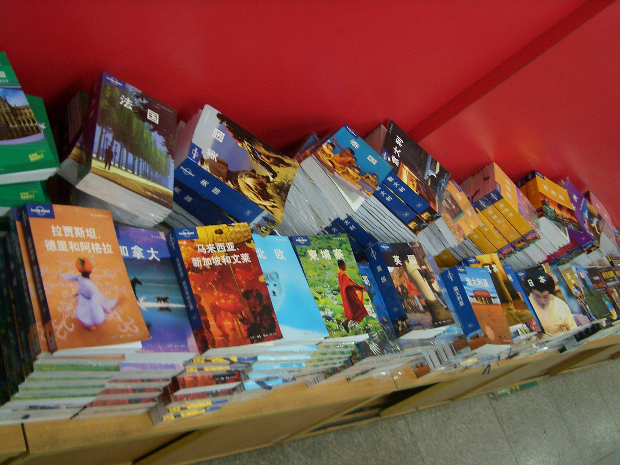 The travel section of a large bookshop in Lanzhou (in Donggang Xi Lu), with lots of Lonely Planet books in Chinese